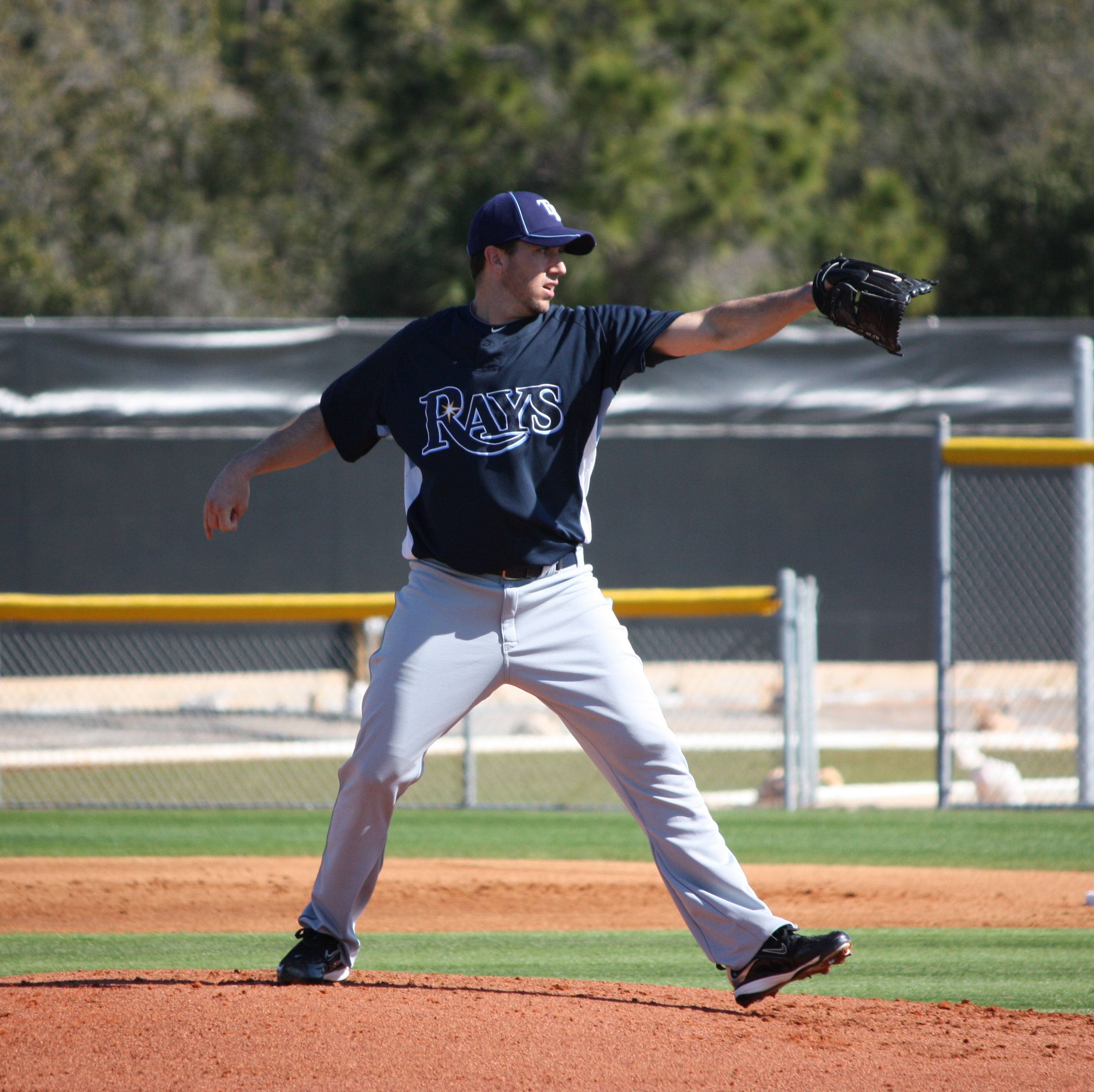 Lance Cormier of the Tampa Bay Rays doing first base drills during spring training workouts at Charlotte Sports Park in Port Charlotte on February 21, 2010.